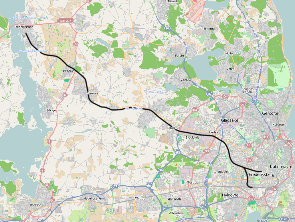 Railway line Frederiksberg - Frederikssund